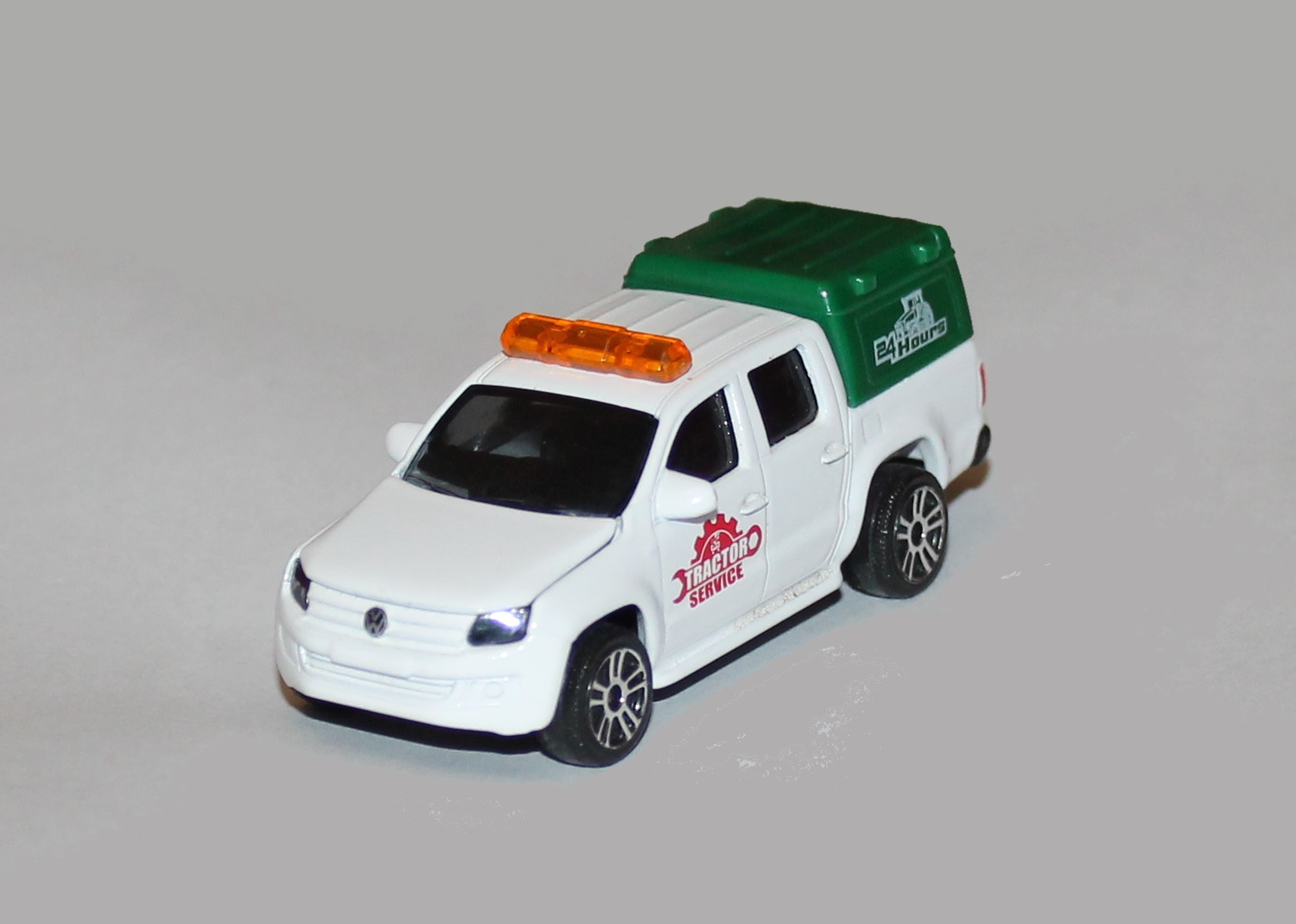 VW Amarok 1:65